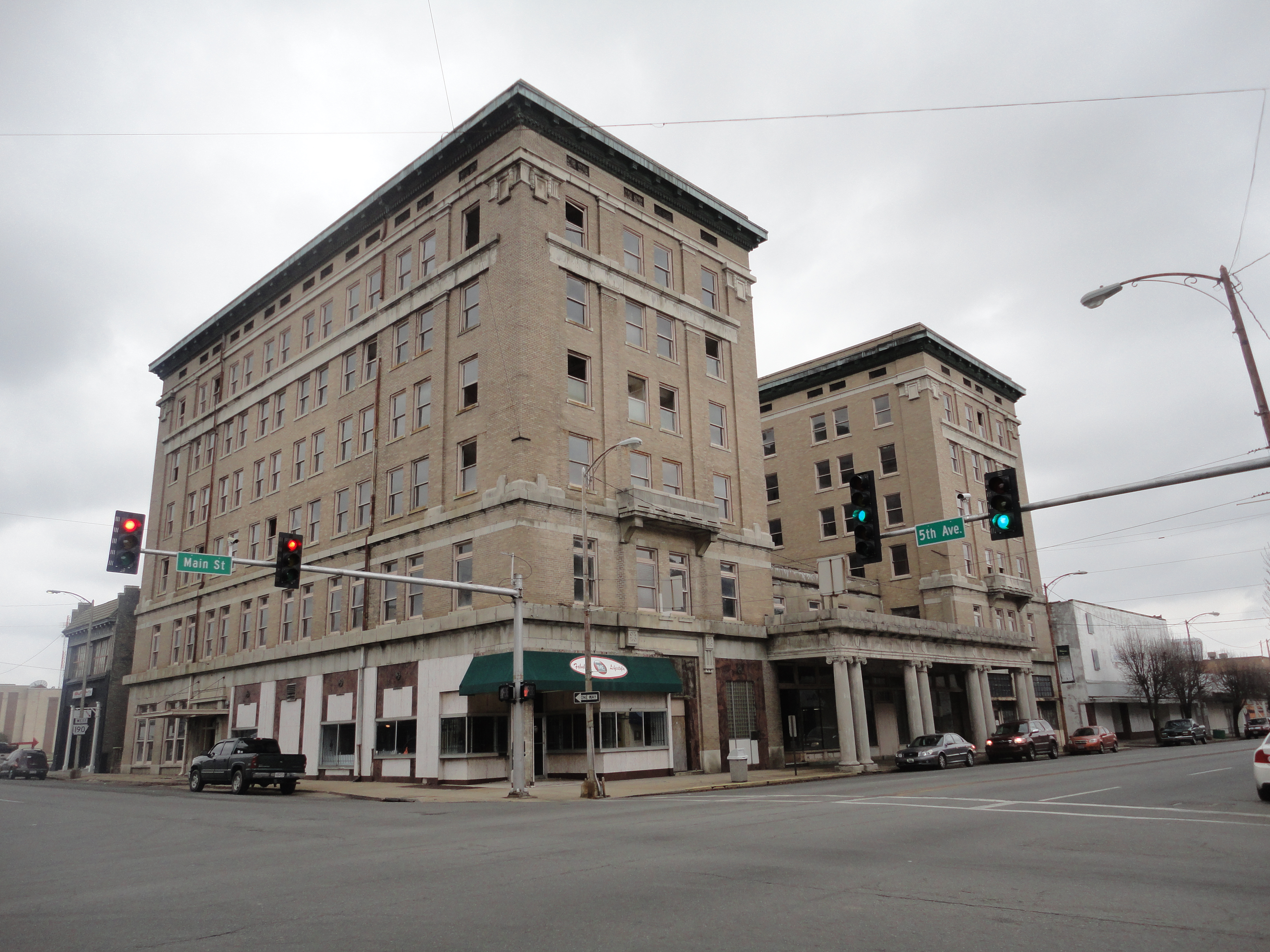 From flickr: Hotel Pines @ 5th and Main - Pine Bluff, Arkansas